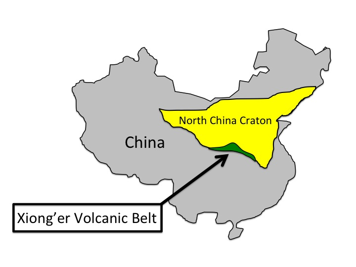 Xiong'er Volcanic Belt Location